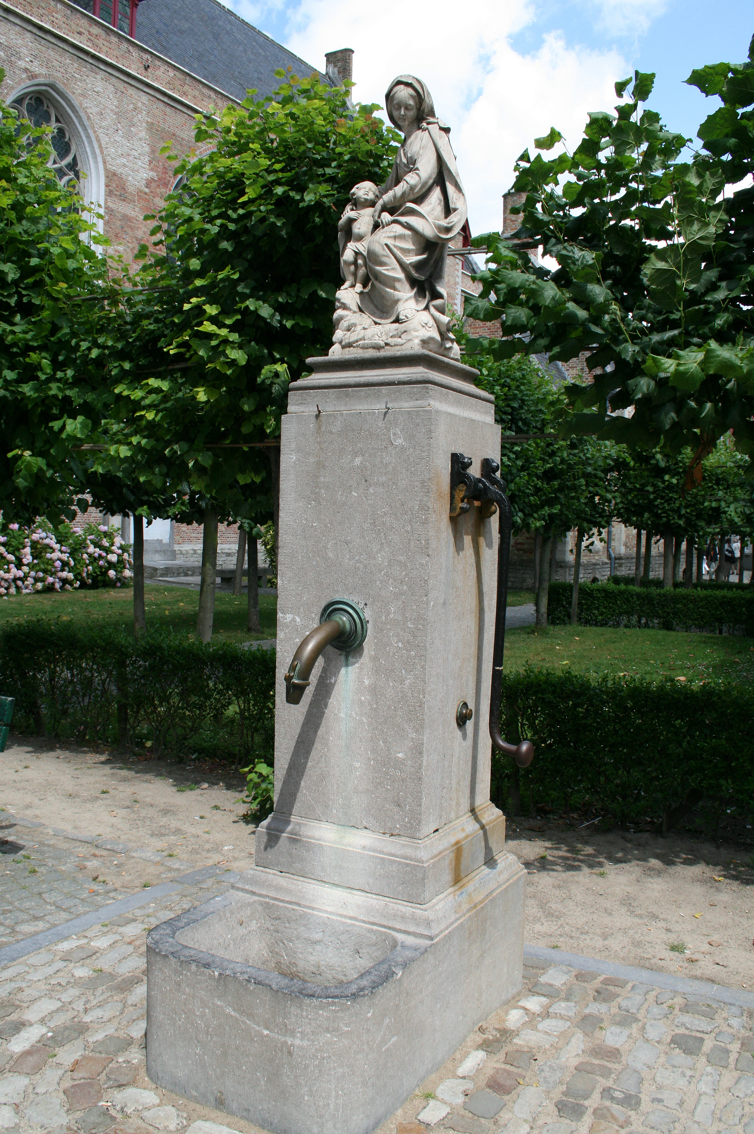 Bruges (Belgium), Mariastraat - Madonna and Child fountain.